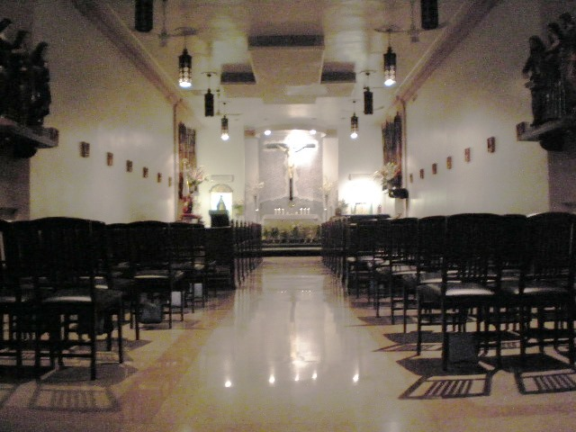 This photo is of Wikipedia Takes Manhattan location code 150, Chapel of San Lorenzo Ruiz.